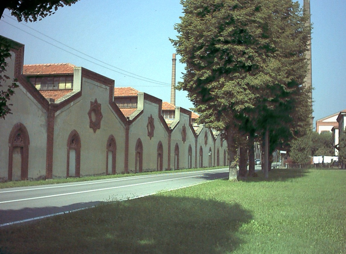 The Crespi factory, Crespi d'Adda (Bergamo), Lombardy, Italy.